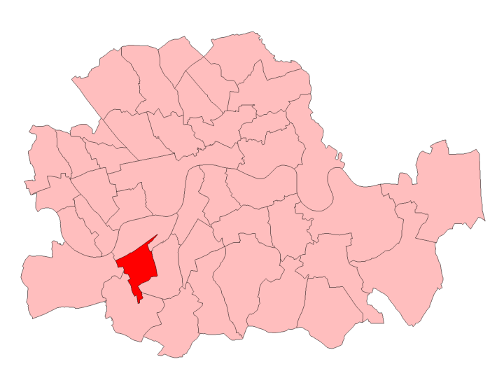 A map of Battersea South constituency within the London County Council area, as it existed from 1950 to 1974.